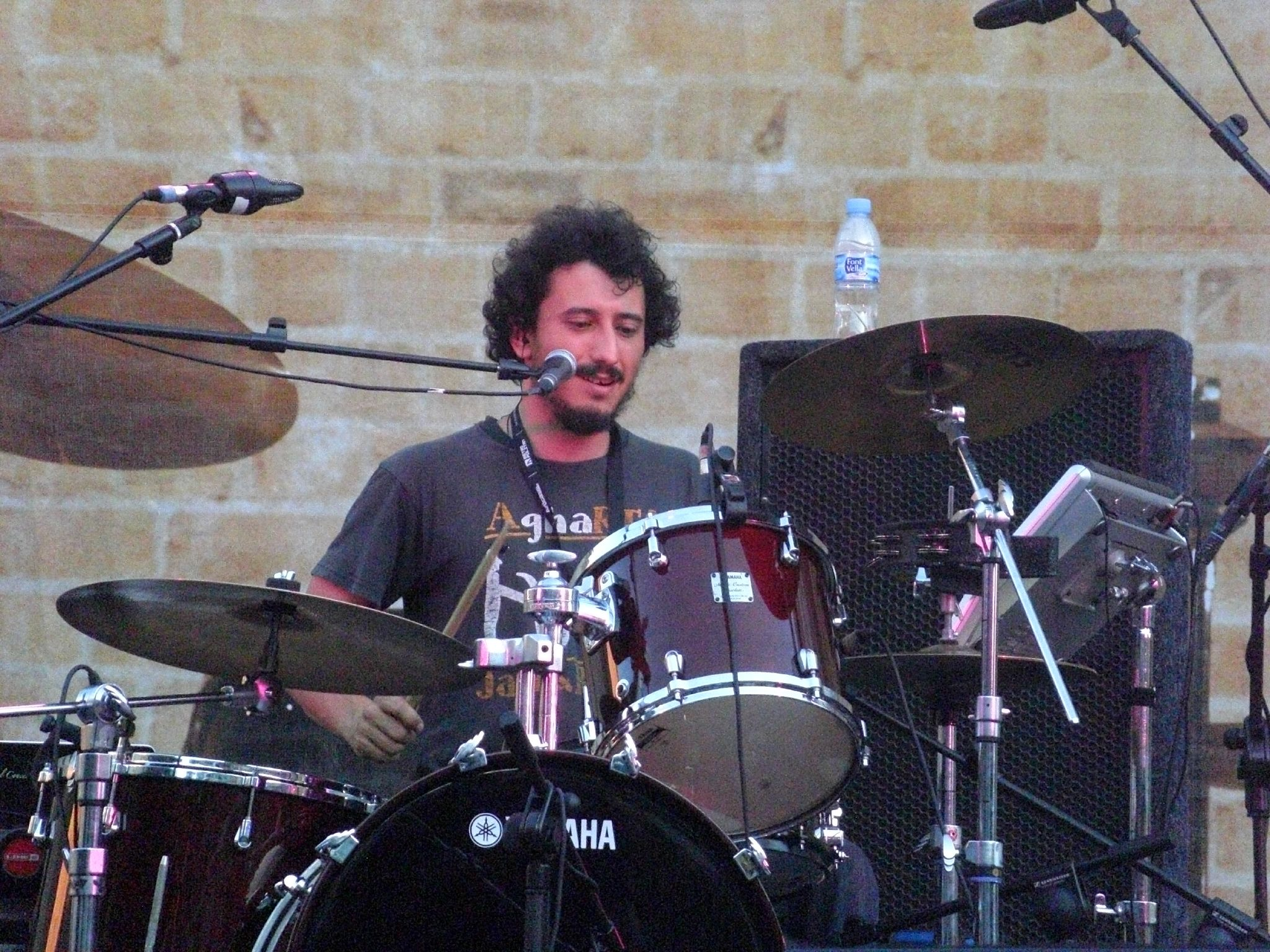 Arnau Vallvé, member of the Catalan band Manel